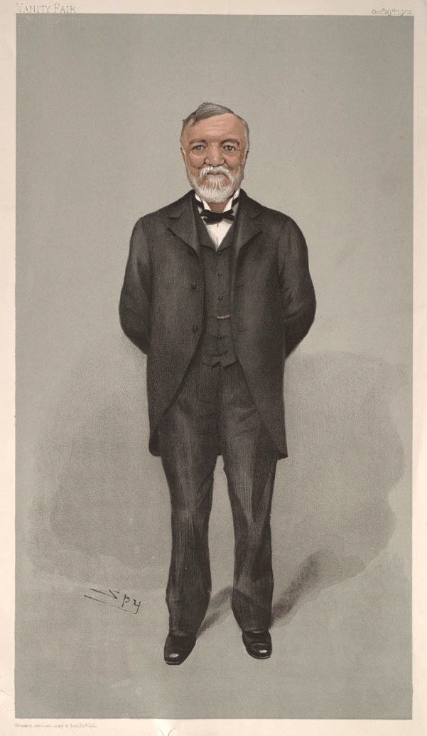 Men of the Day No.898: Caricature of Mr Andrew Carnegie. Caption reads: "Free Libraries"